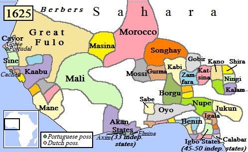 Map of West Africa, AD 1625. (Partially based on Atlas of World History (2007) - Early modern Africa, map.)